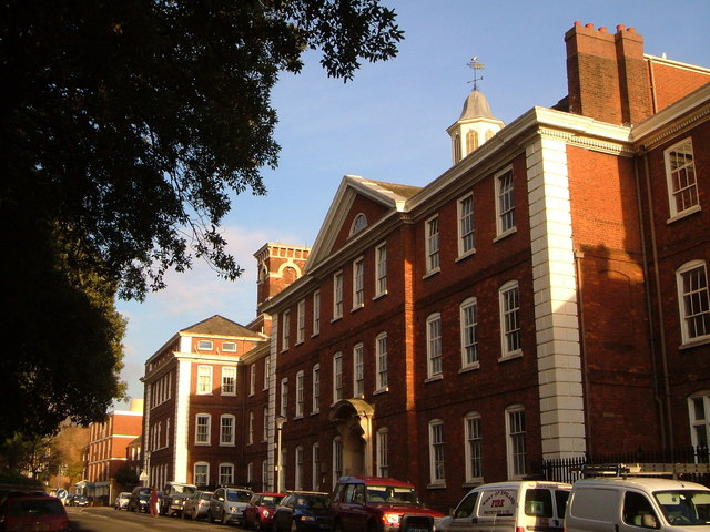 Dean Clarke House, Southernhay, Exeter The original Royal Devon and Exeter Hospital building, dating from 1742, with alterations in 1772 and later additions. Currently used by the NHS for administration and outpatient clinical services, the whole site is up for sale. "A range of alternative uses, including residential and commercial, and the potential for additional development on the car park has been discussed."